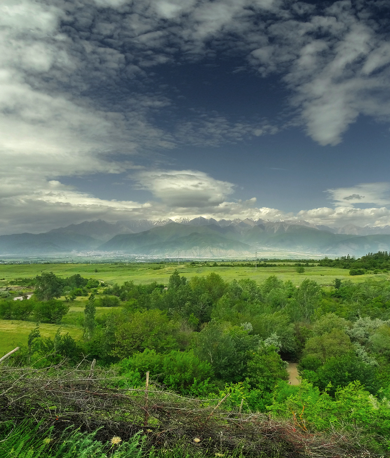 Nature of Shaki rayon, Azerbaijan